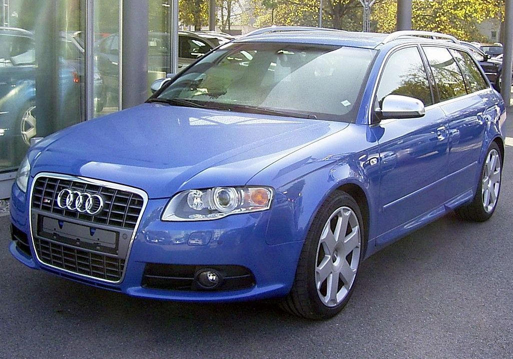 Audi B7 S4 Avant in Sprint Blue with Avus-III alloy wheels